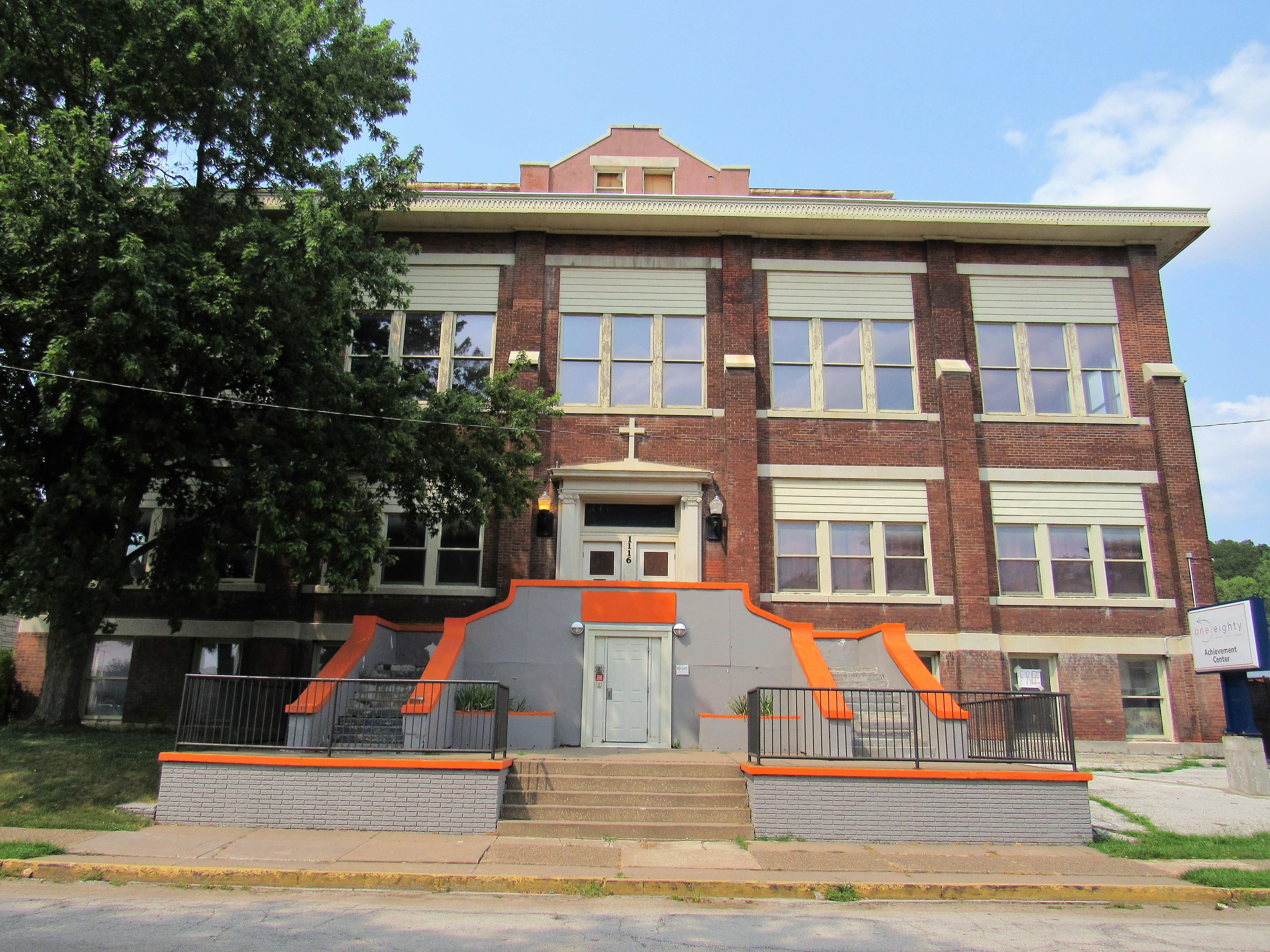 The former school building at St. Joseph Catholic Church in Davenport, Iowa.